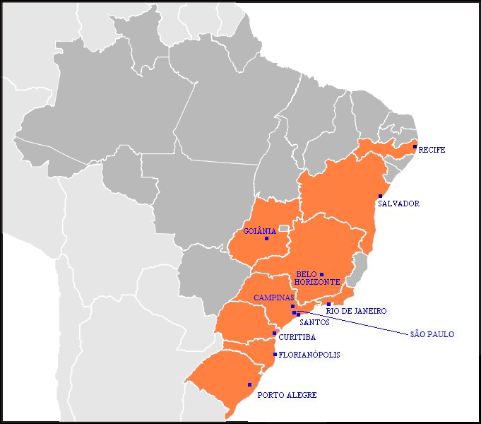 Map of the cities with teams in the Brazilian Fooball (Soccer) Championship.